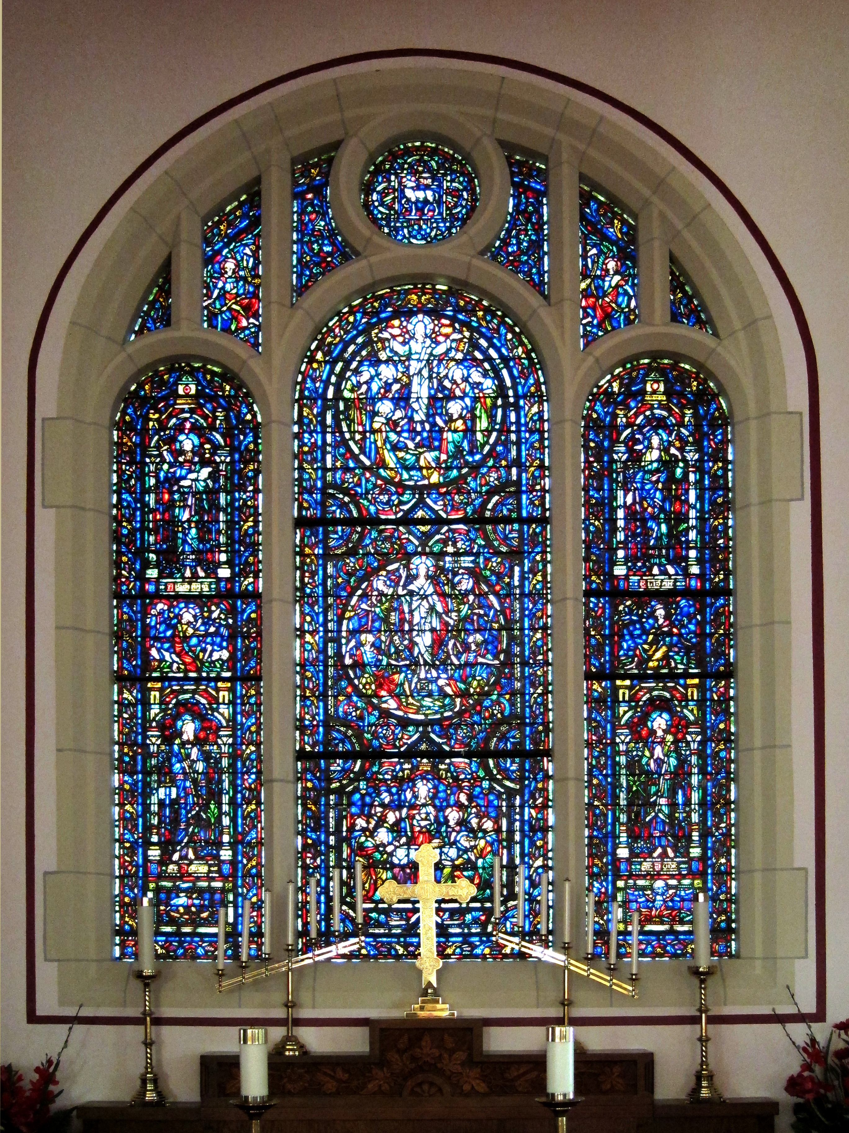 Stained glass window in the chancel of the Church of St. James the Greater, Bristol, Pennsylvania, commissioned through a donation from the Dorrance family and installed in 1924. It was designed by the stained glass artist Nicholas D’Ascenzo.